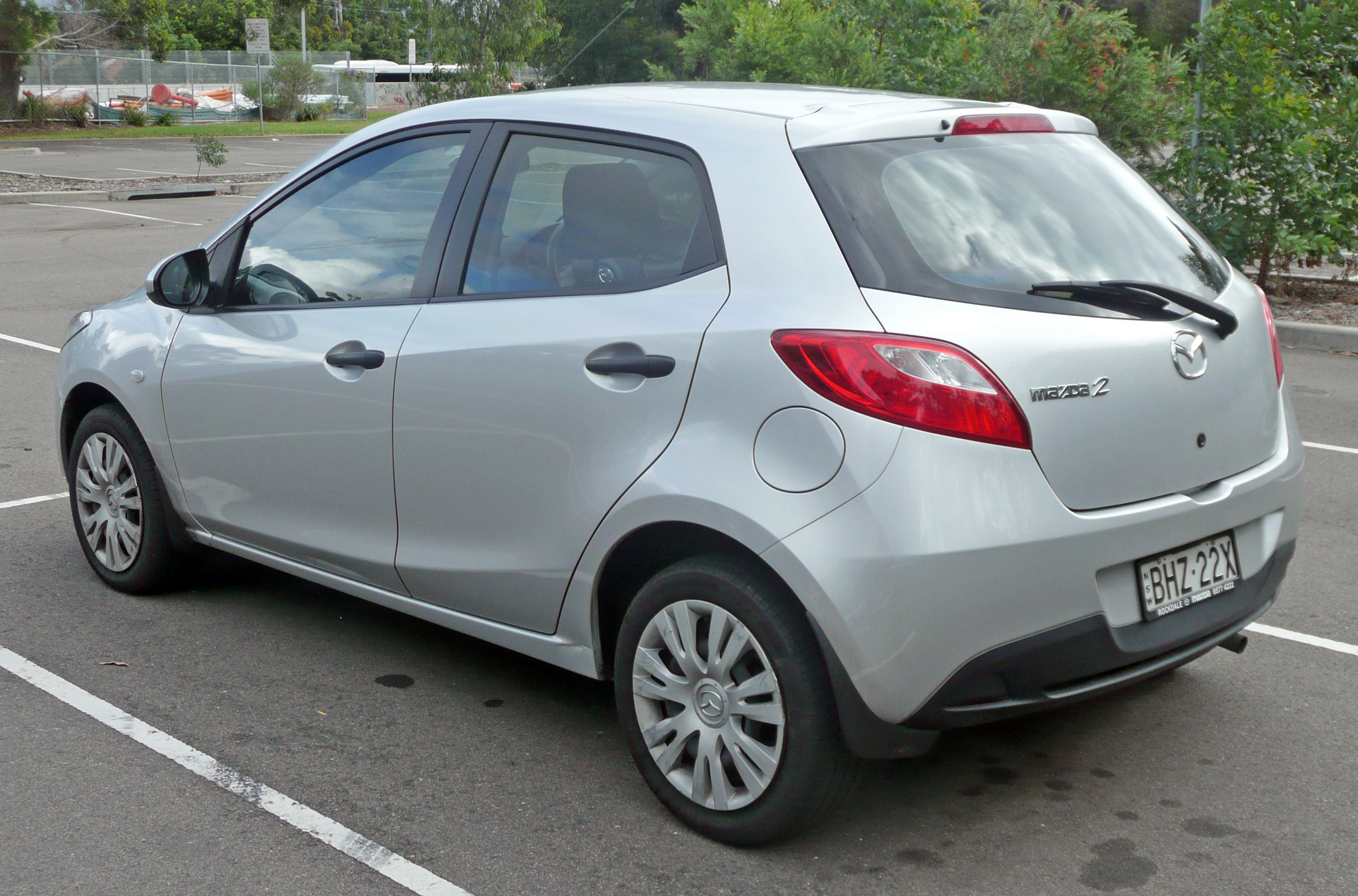 2007–2009 Mazda2 (DE) Neo 5-door hatchback. Photographed in Kirrawee, New South Wales, Australia.